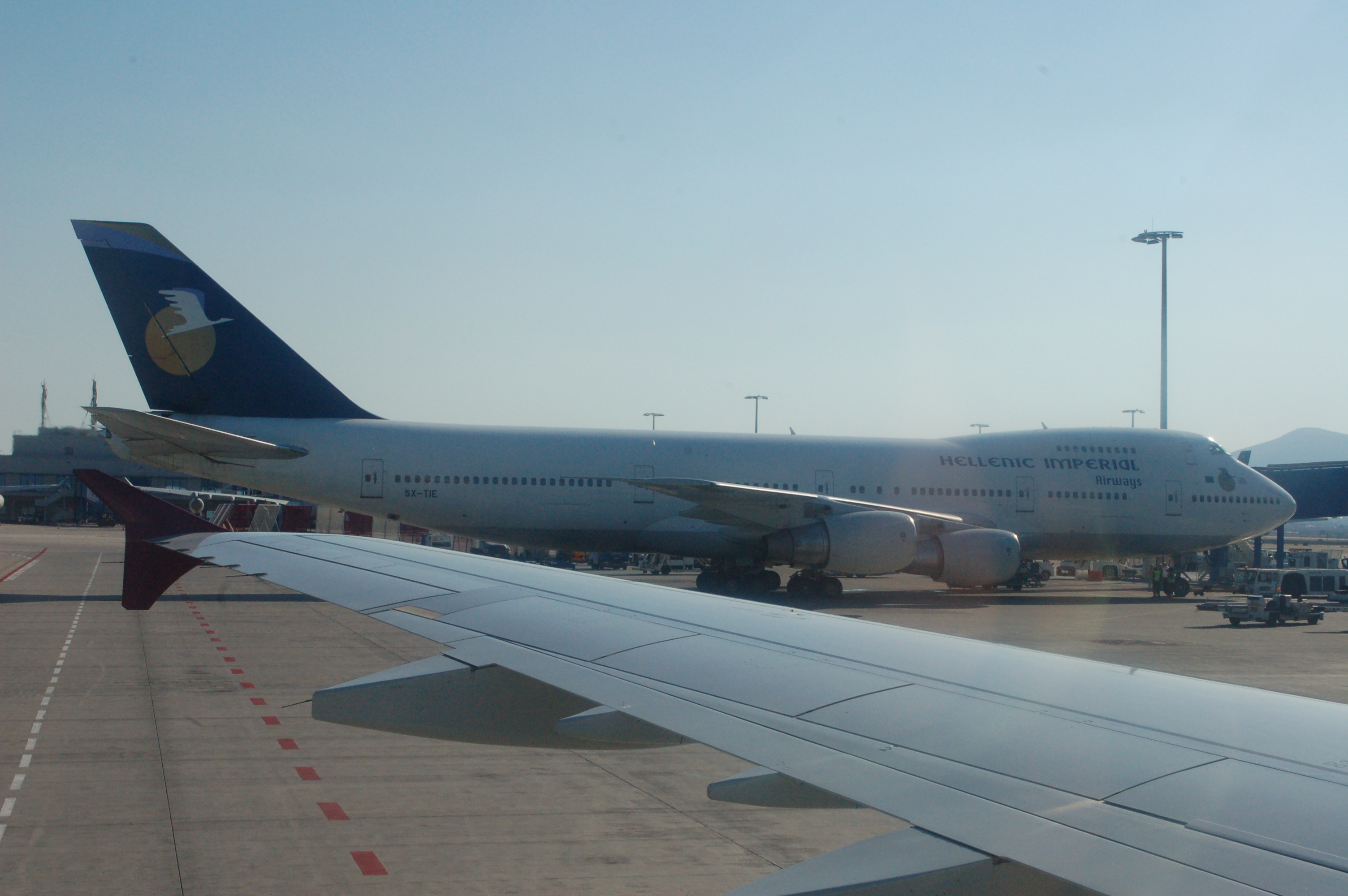 A Hellenic Imperial Boeing 747-230B, SX-TIE, at Athens International Airport.